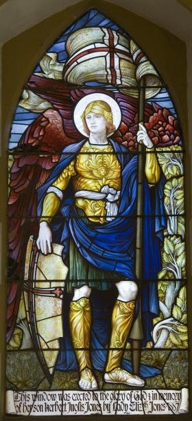 West window of the Church of St Bledrws, Betws Bledrws, Ceredigion, produced by Shrigley and Hunt, and designed by Carl Almquist (1848-1924).